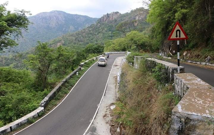 Hair pin bend at kolli hills